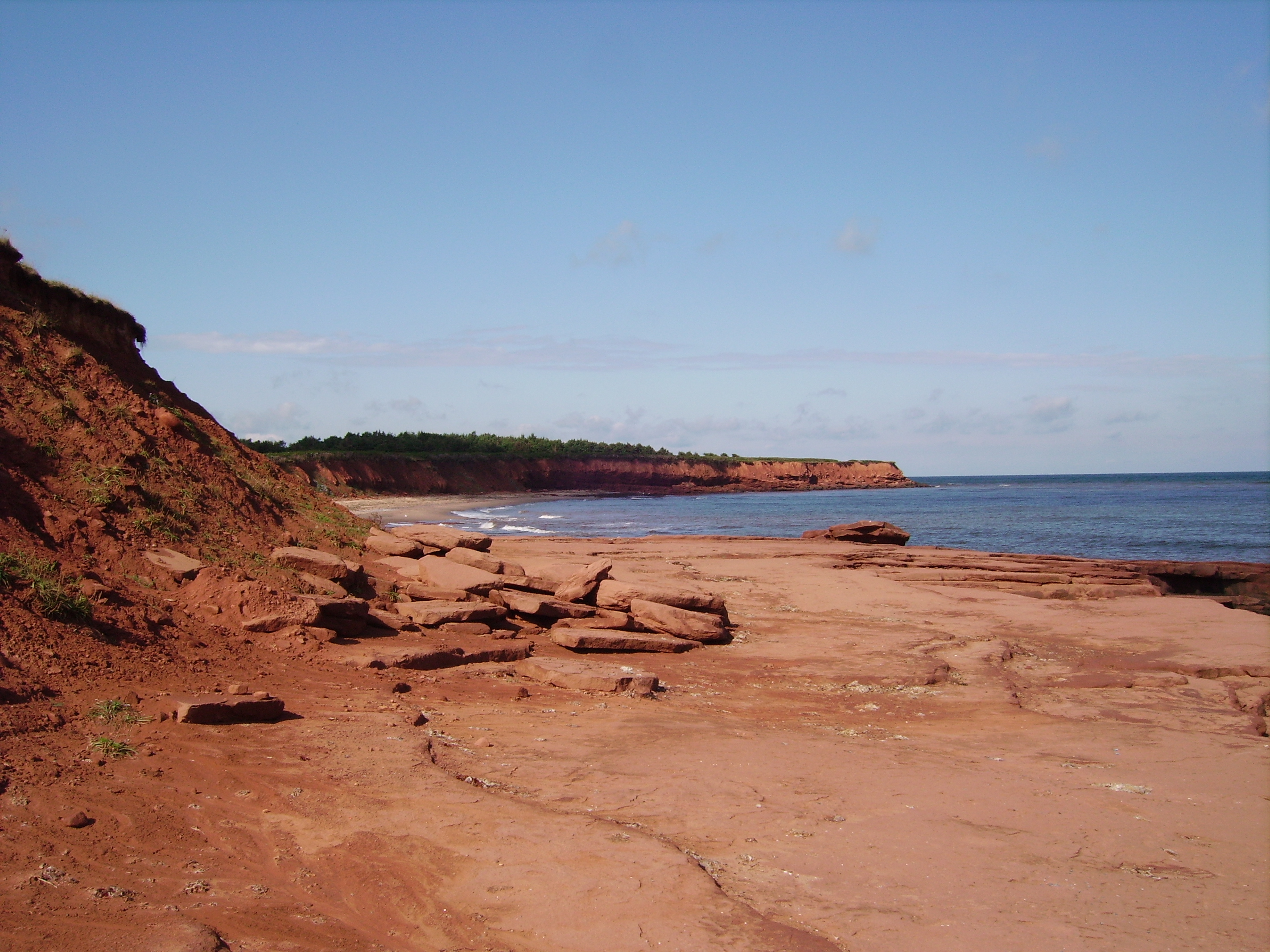 The coast of Prince Edward Island, as seen from Cavendish.